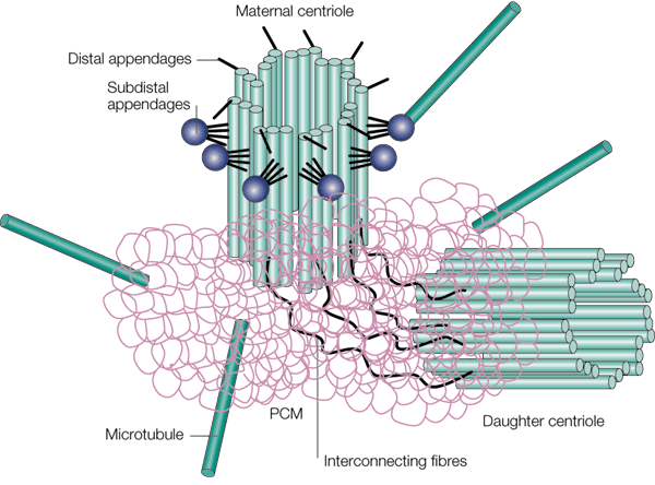 Pericentriolar material nucleates the assembly of microtubules in animal cells.